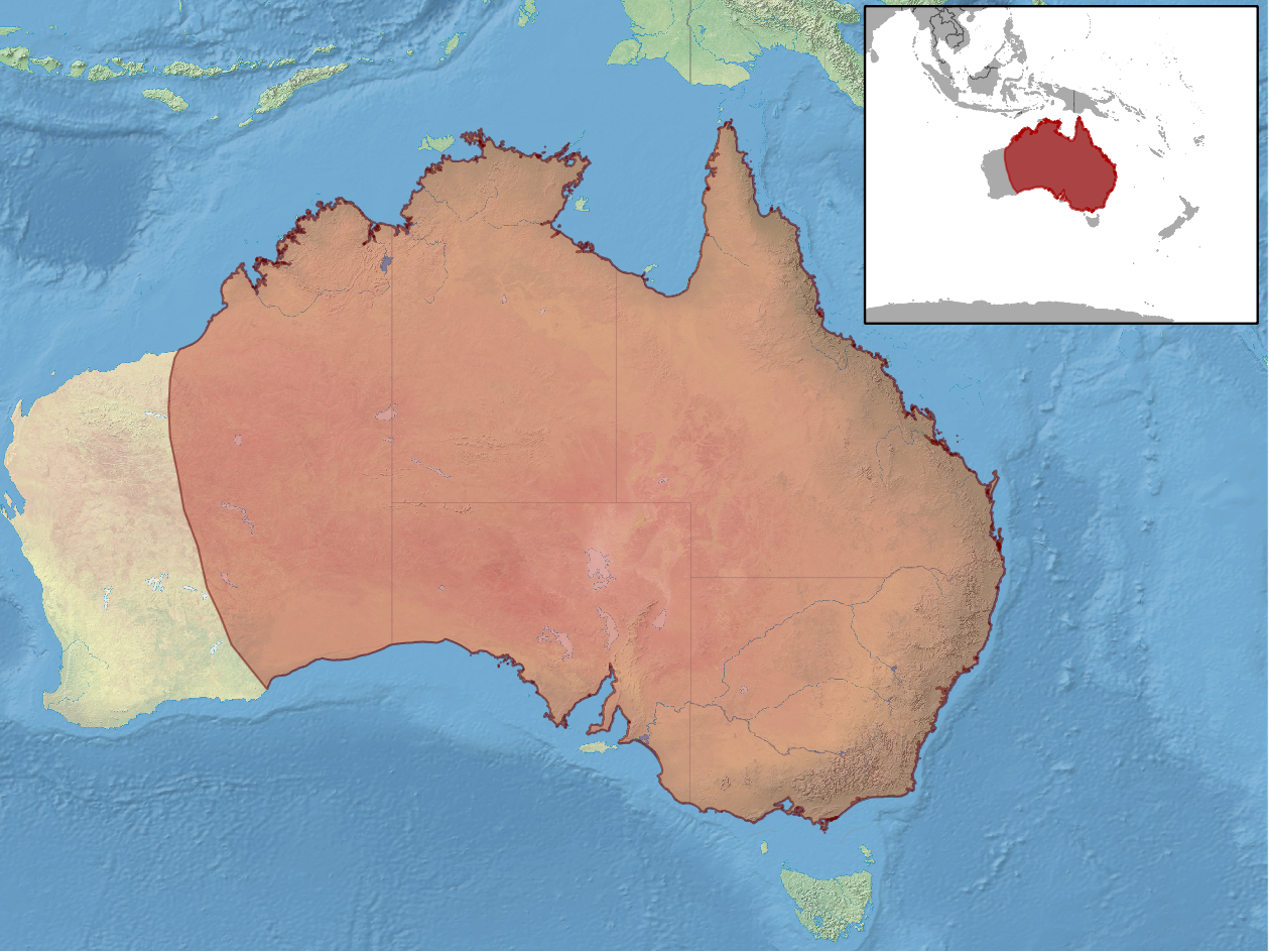 geographic distribution of Morethia boulengeri